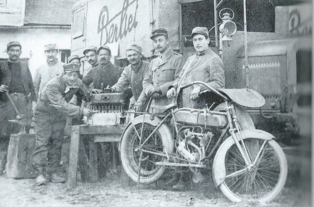 WW I French army motorcyle and truck